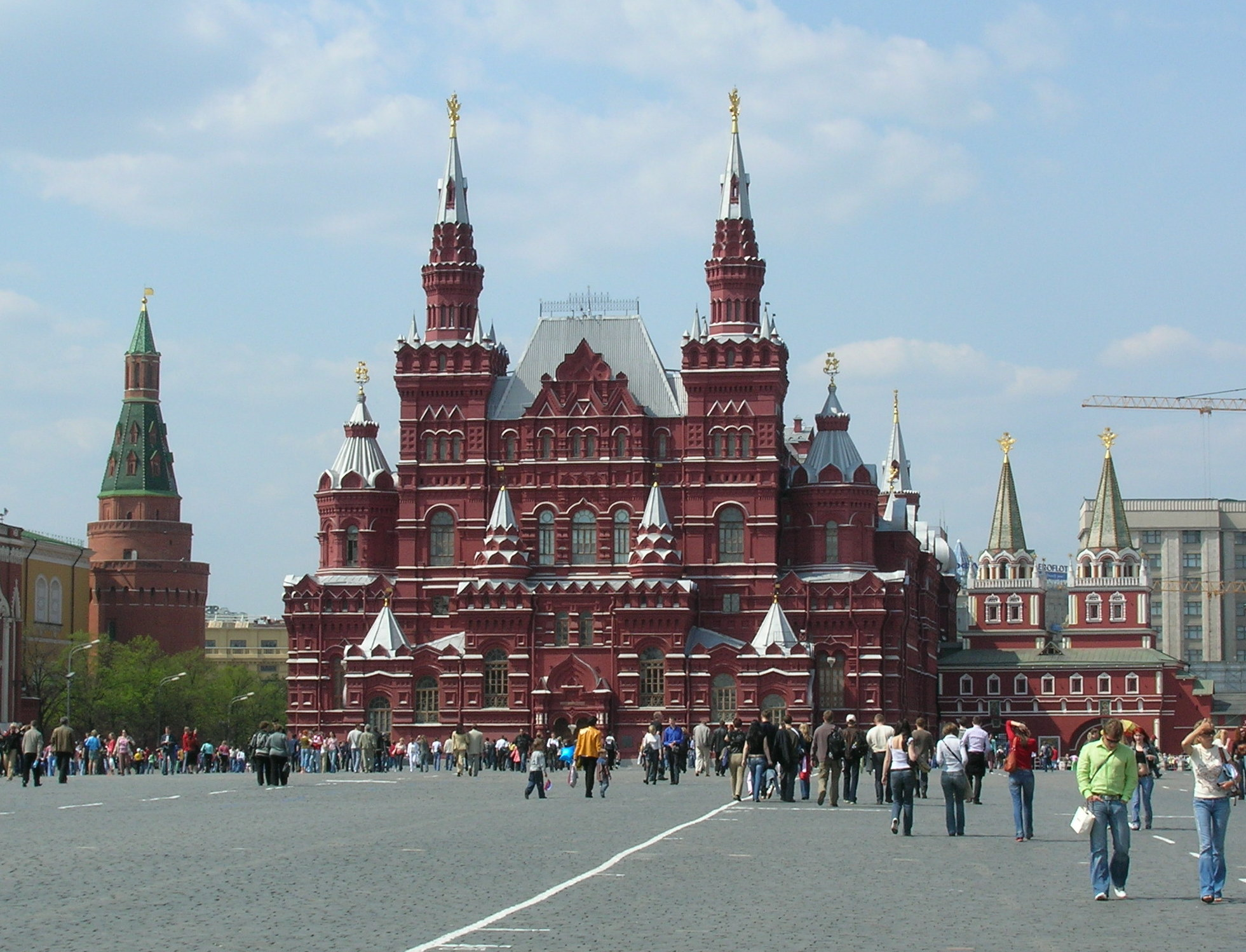 Moscow State Historical Museum. Red Square Moscow (Russia).